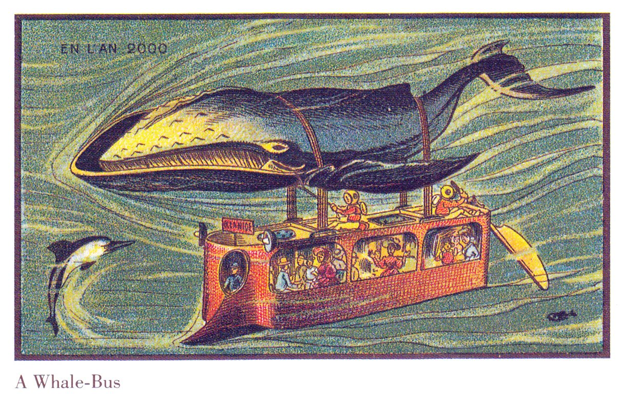 France in 2000 year (XXI century). Whale-bus. France, paper card by Jean-Marc Côté.